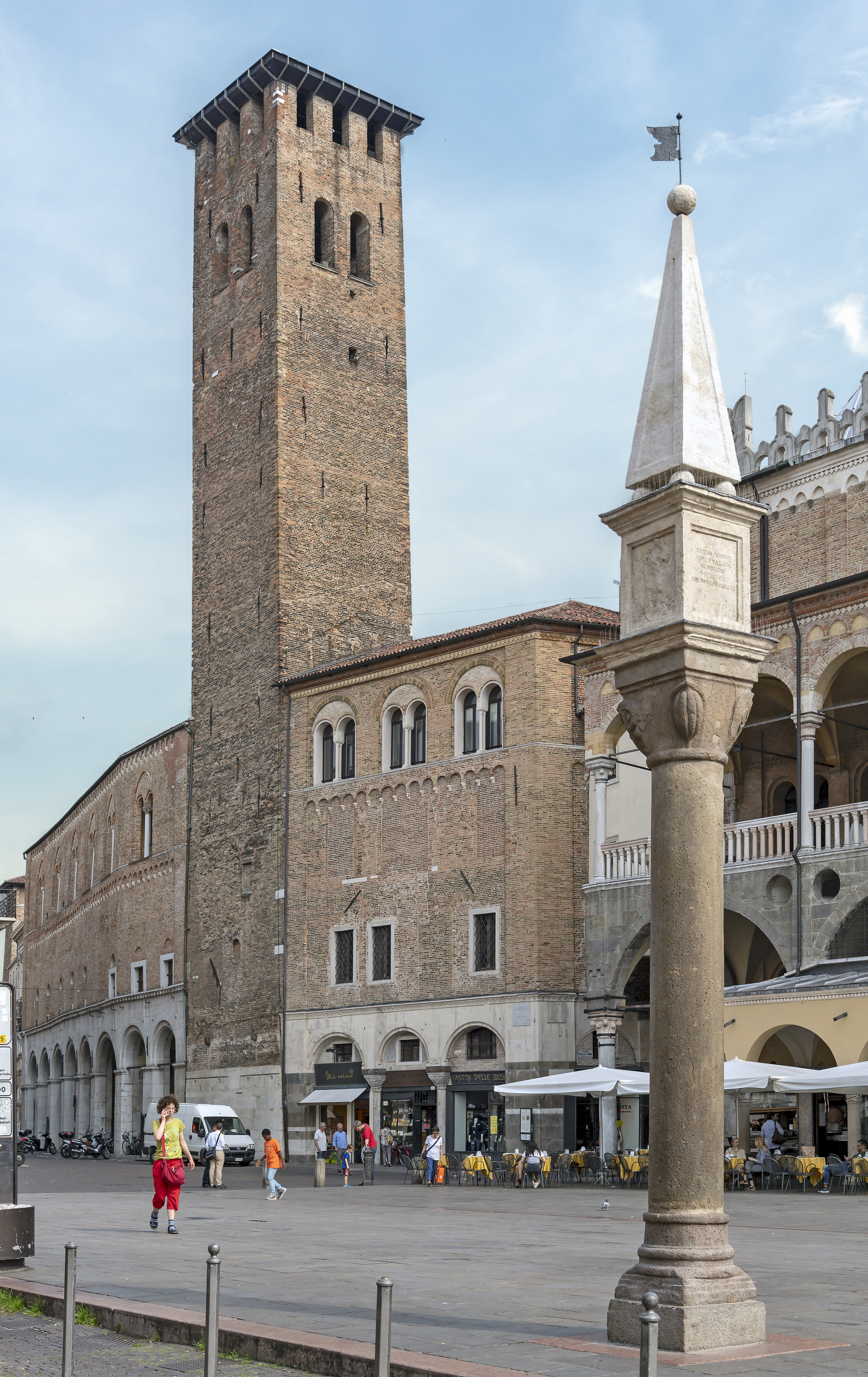 Torre degli Anziani and la colonna del Peronio, Viewed from Piazza della Frutta.